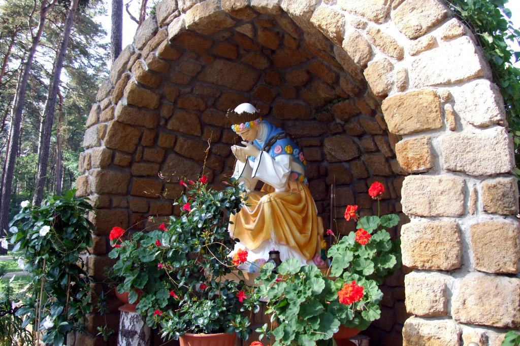 Our Lady of La Salette statue located next to Our Lady of La Salette's Church in Ostrowiec Swietokrzyski, Poland